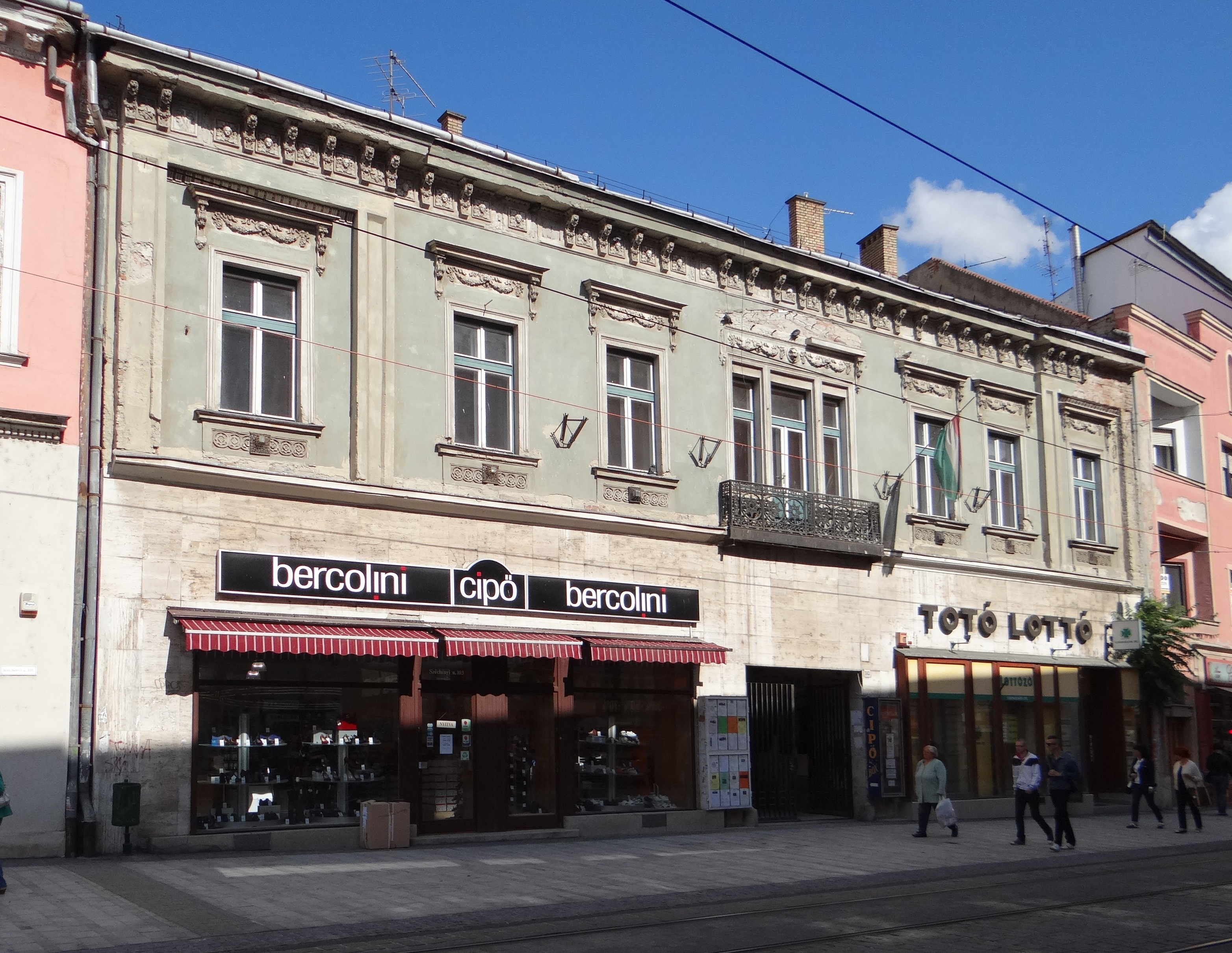 103 Szechenyi Street, Miskolc, Hungary